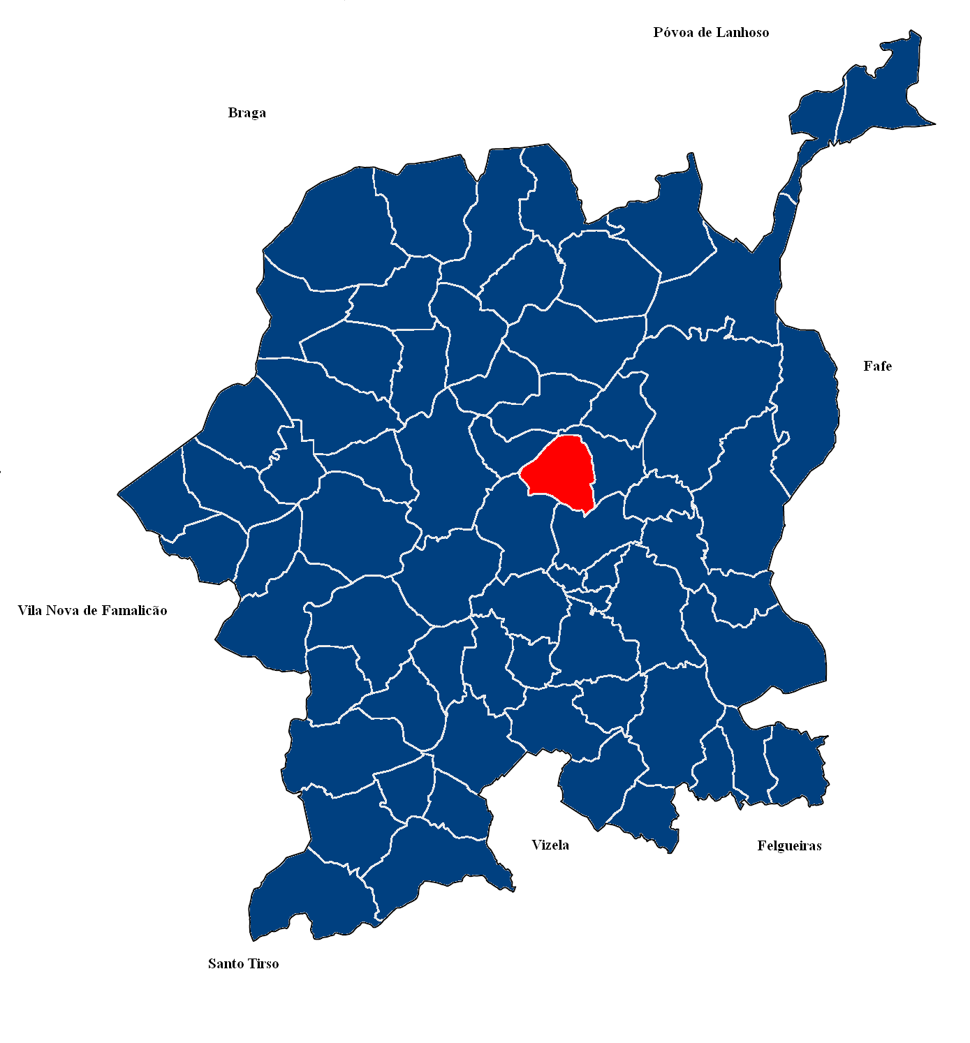 Map of Pencelo parish, Guimarães Municipality, Portugal